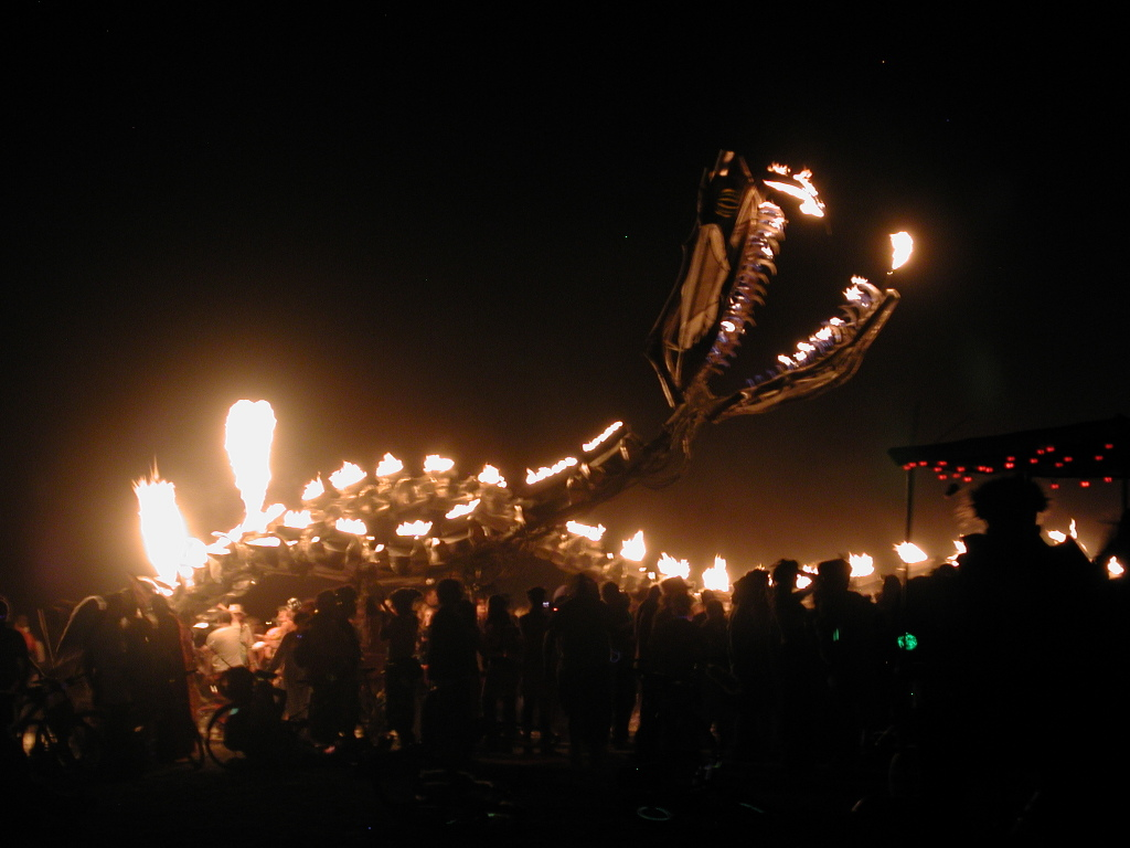 The Serpent Mother from the Flaming Lotus Girls